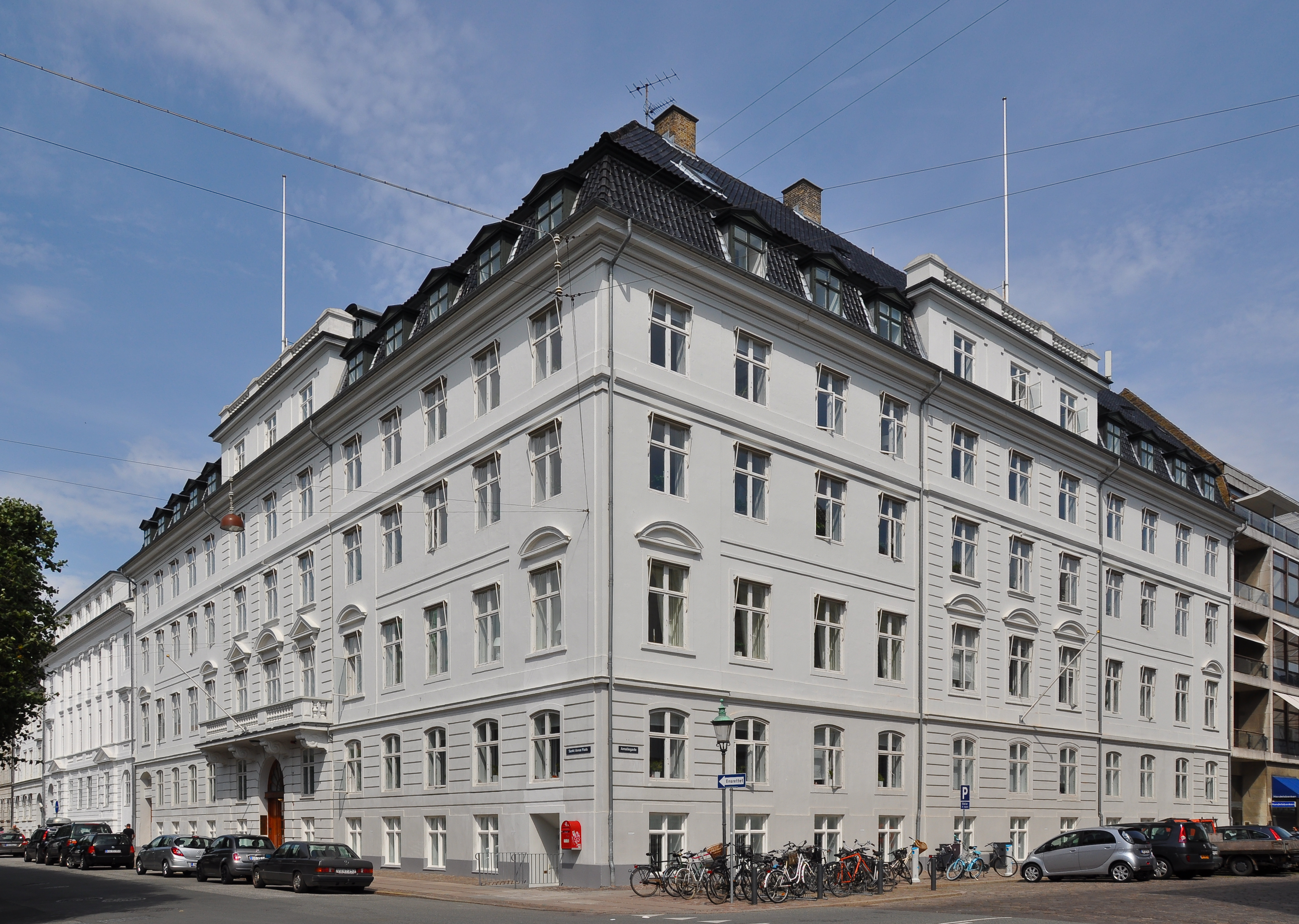 The Palace of Prince Wilhelm in Copenhagen.